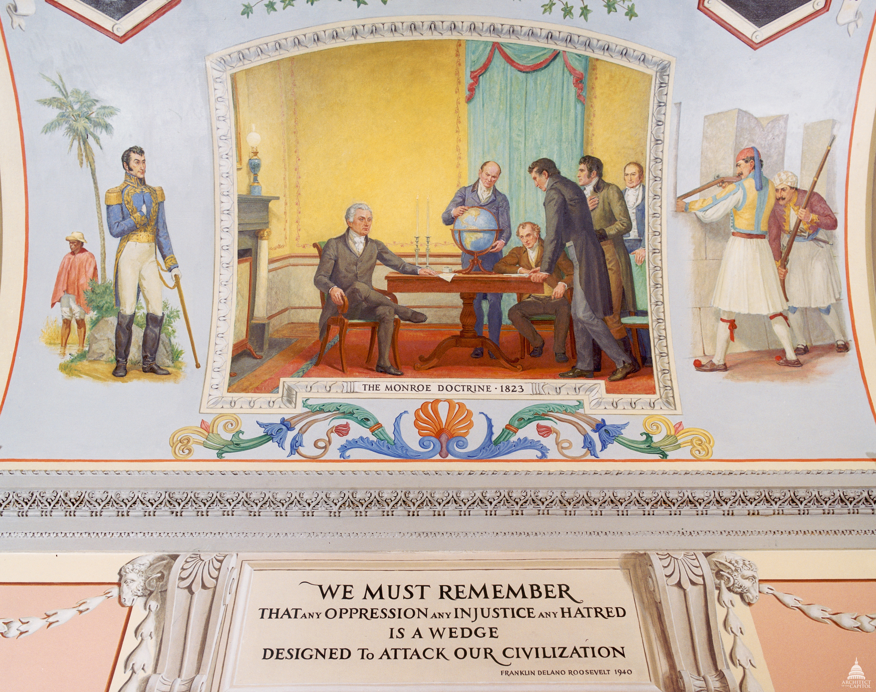 Allyn Cox Oil on Canvas 1973-1974 Great Experiment Hall Cox Corridors Responding to Russian territorial claims along the northern Pacific coast, and concerned that European nations would attempt to seize recently independent Latin American states, President James Monroe announced a new national policy. No new colonies would be allowed in the Americas, and European powers were not to interfere in the affairs of the Western Hemisphere. This mural depicts a discussion among the president and members of his cabinet; from left to right are President James Monroe, Secretary of State John Quincy Adams, Attorney General William Wirt, Secretary of War John Calhoun, and Secretary of the Navy Samuel L. Southard. Left: Simón Bolívar, who fought for the independence of many Spanish colonies in South America, represents a commitment to liberty. Right: Greek freedom fighters, who were aided by Russia, Britain, and France in gaining autonomy from the Ottoman Empire, symbolize the struggle for freedom around the globe. This official Architect of the Capitol photograph is being made available for educational, scholarly, news or personal purposes (not advertising or any other commercial use). When any of these images is used the photographic credit line should read “Architect of the Capitol.” These images may not be used in any way that would imply endorsement by the Architect of the Capitol or the United States Congress of a product, service or point of view. For more information visit